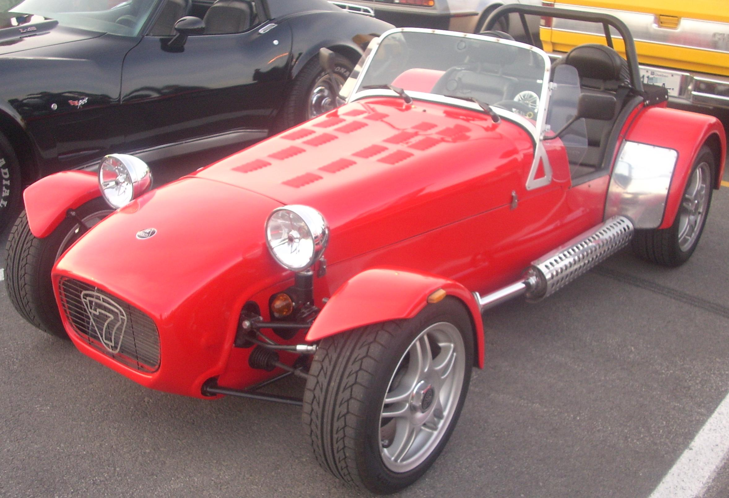 Birkin Lotus Seven photographed in Laval, Quebec, Canada at Centropolis Laval.